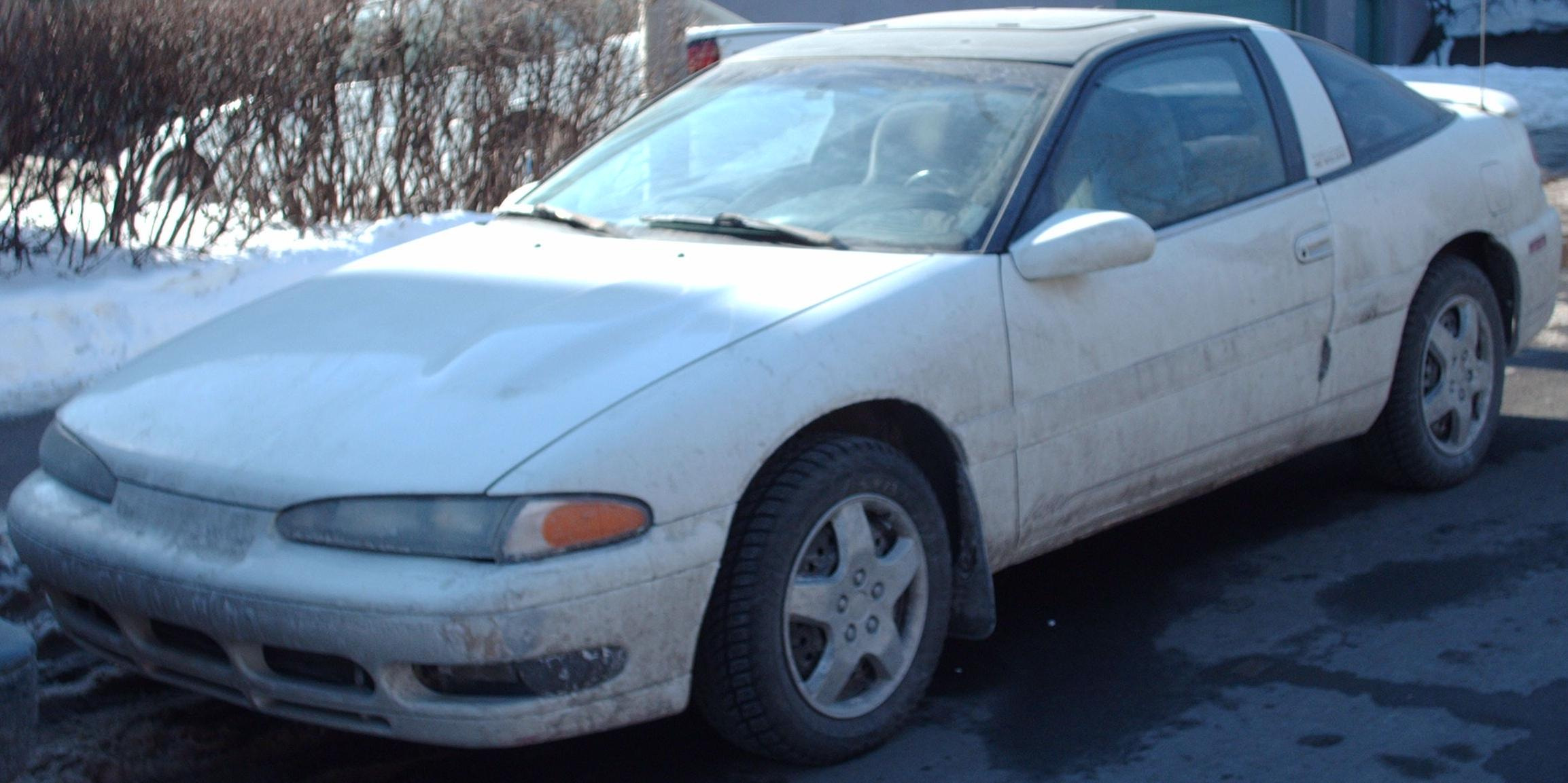 1992-1994 Plymouth Laser photographed in Montreal, Quebec, Canada.